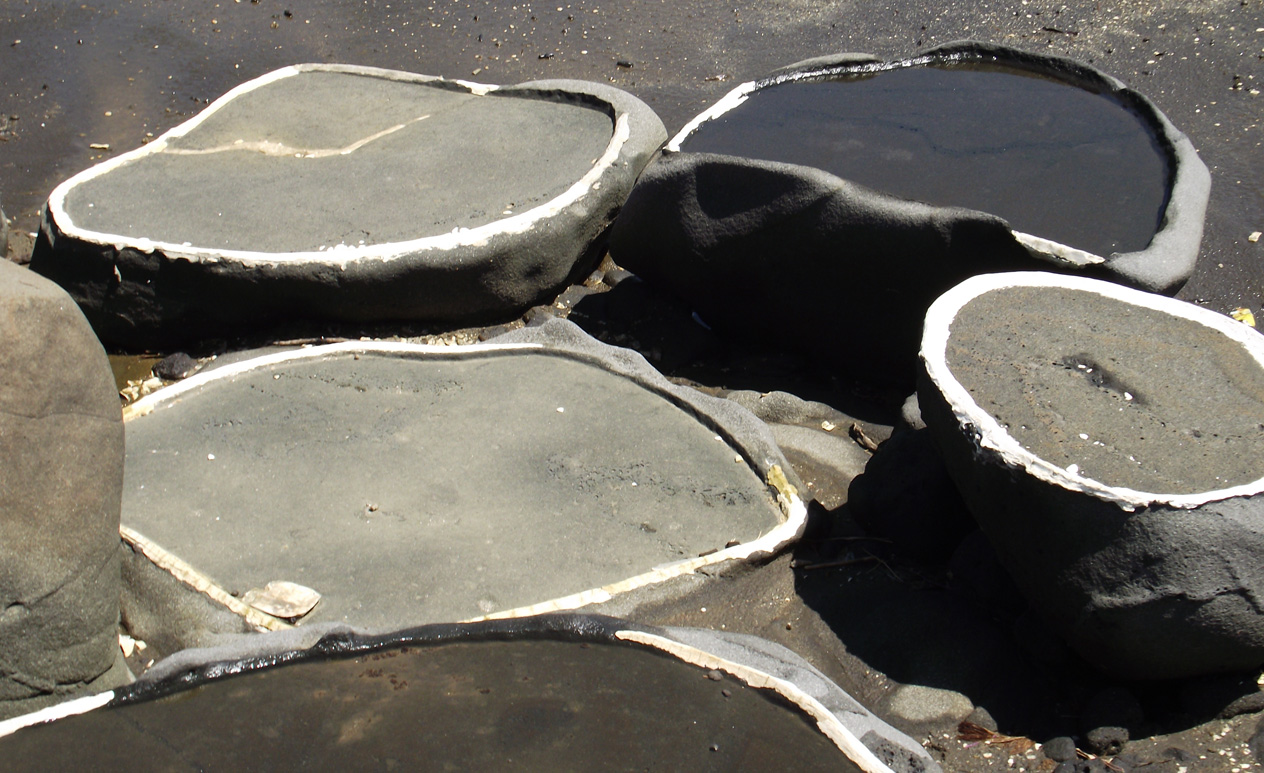 Stones cut flat for evaporating seawater to extract salt. Yangpu Ancient Salt Field (洋浦千年古盐田) archeological heritage site in Yantian village, Yangpu Peninsula, Hainan, China